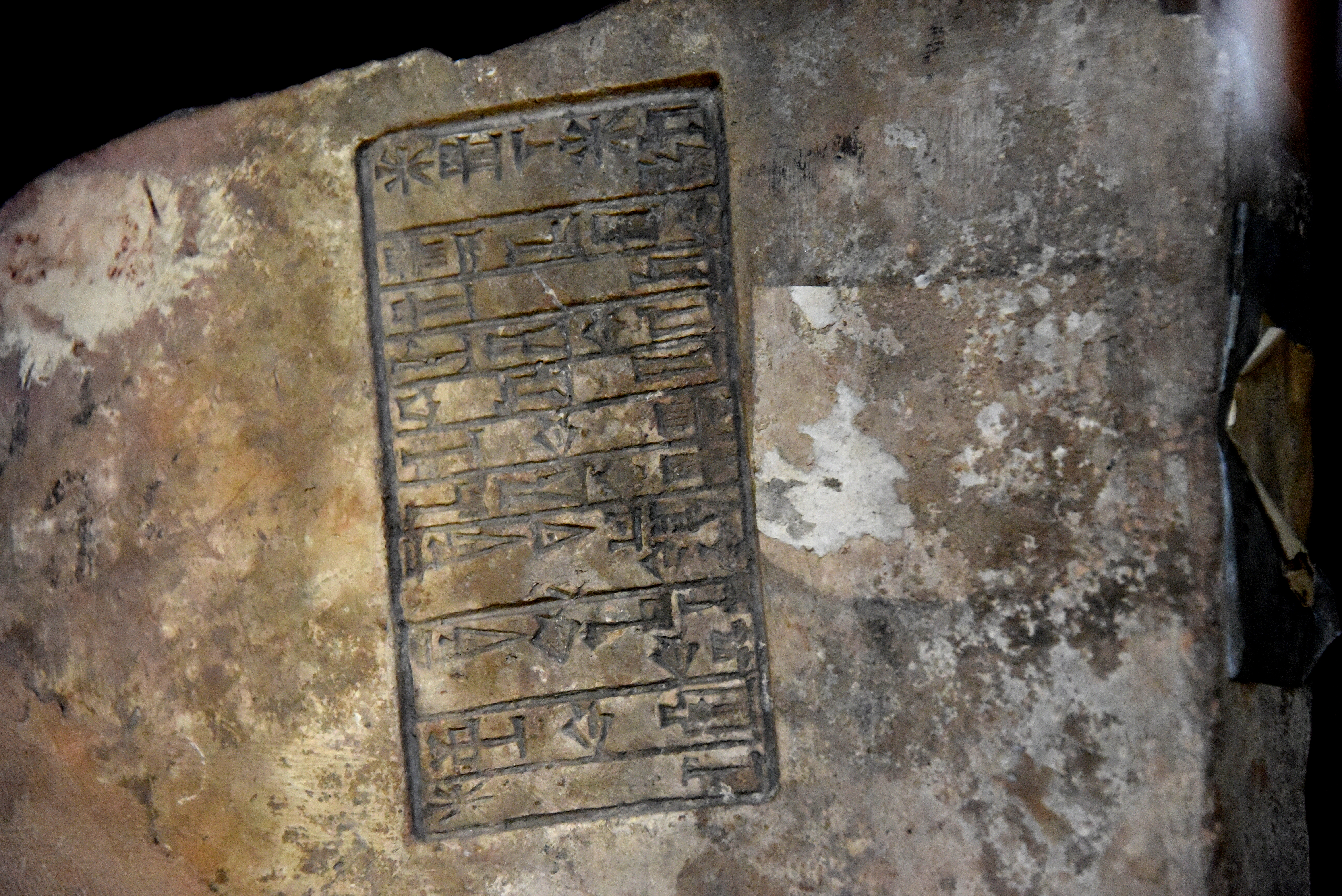 There are 11 lines of cuneiform inscriptions on this fired clay brick; stamped with the name of Ishme-Dagan, king of Isin. Isin-Larsa Period. From Ur, southern Mesopotamia, modern-day Iraq. It is currently housed in the British Museum in London.